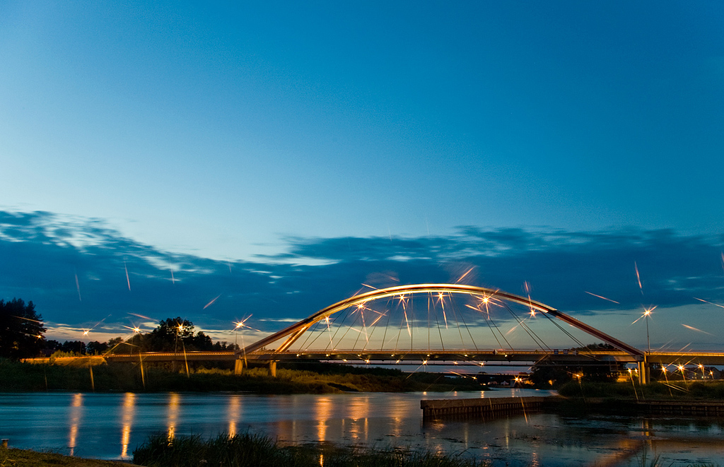 The Madaliński bridge in Ostrołęka (Poland).